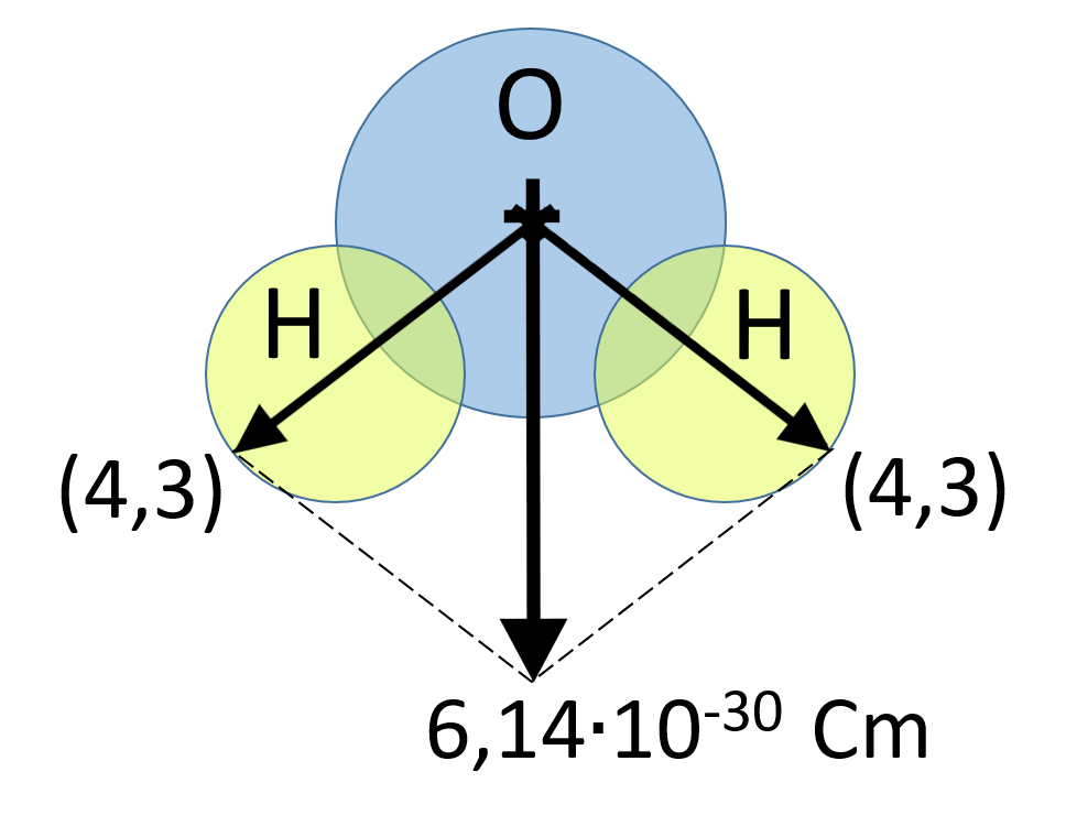 Calculation of the dipole moment of water molecules